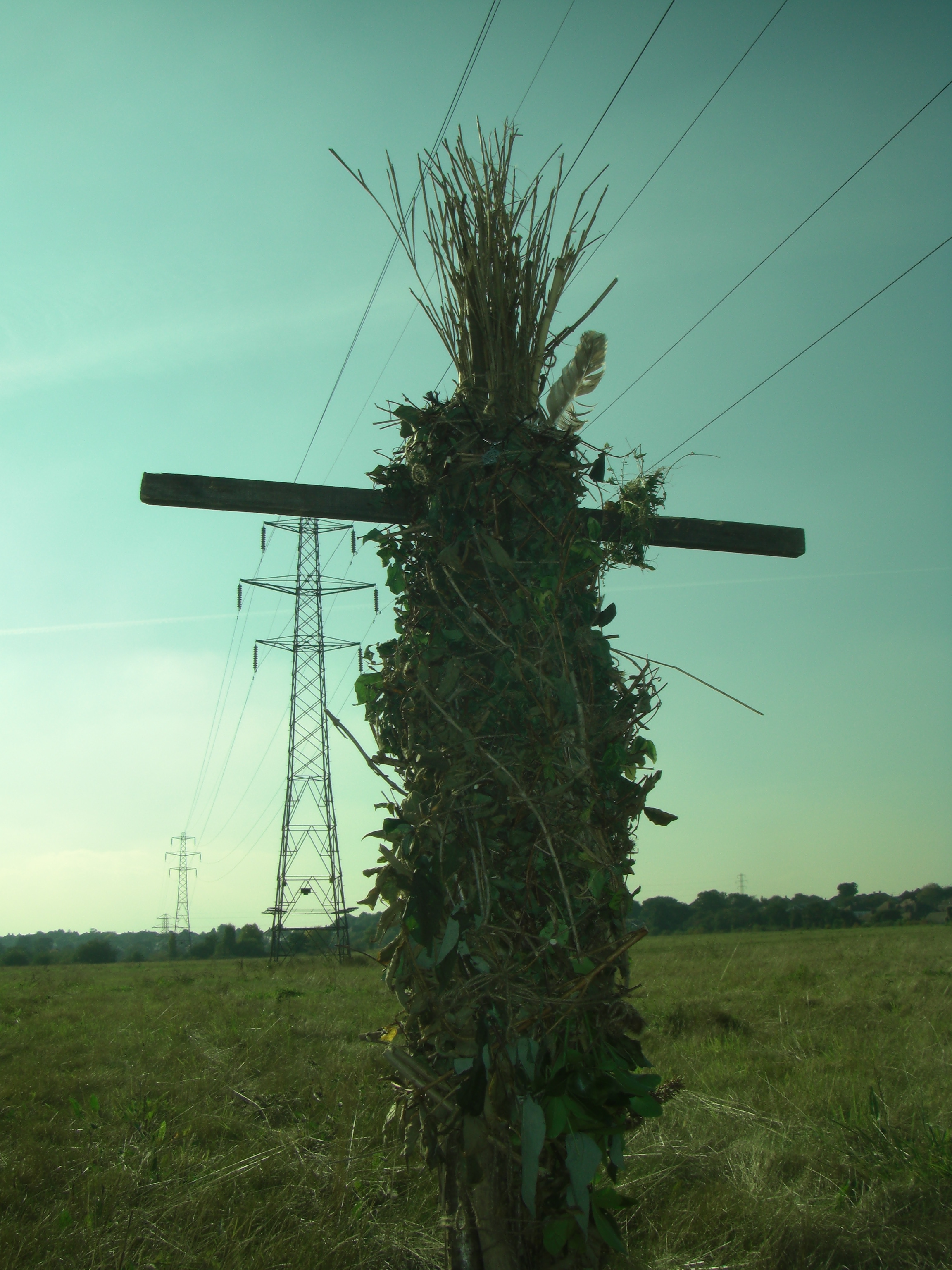 A Neopagan Wicker Man